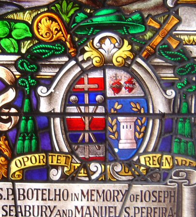 Pic taken and uploaded by User: Aloysius Patacsil A window in the Cathedral of Our Lady of Peace in Honolulu depicts the episcopal crest of Msgr. Stephen Alencaste, Titular bishop of Arabissus and Vicar Apostolic of the Hawaiian Islands. His episcopal motto was Opportet illum regnare. Msgr. Alencastre was the first to make use of the pulo`ulo`u (kapu sticks) and the colors of the Hawaiian flag in his episcopal crest.